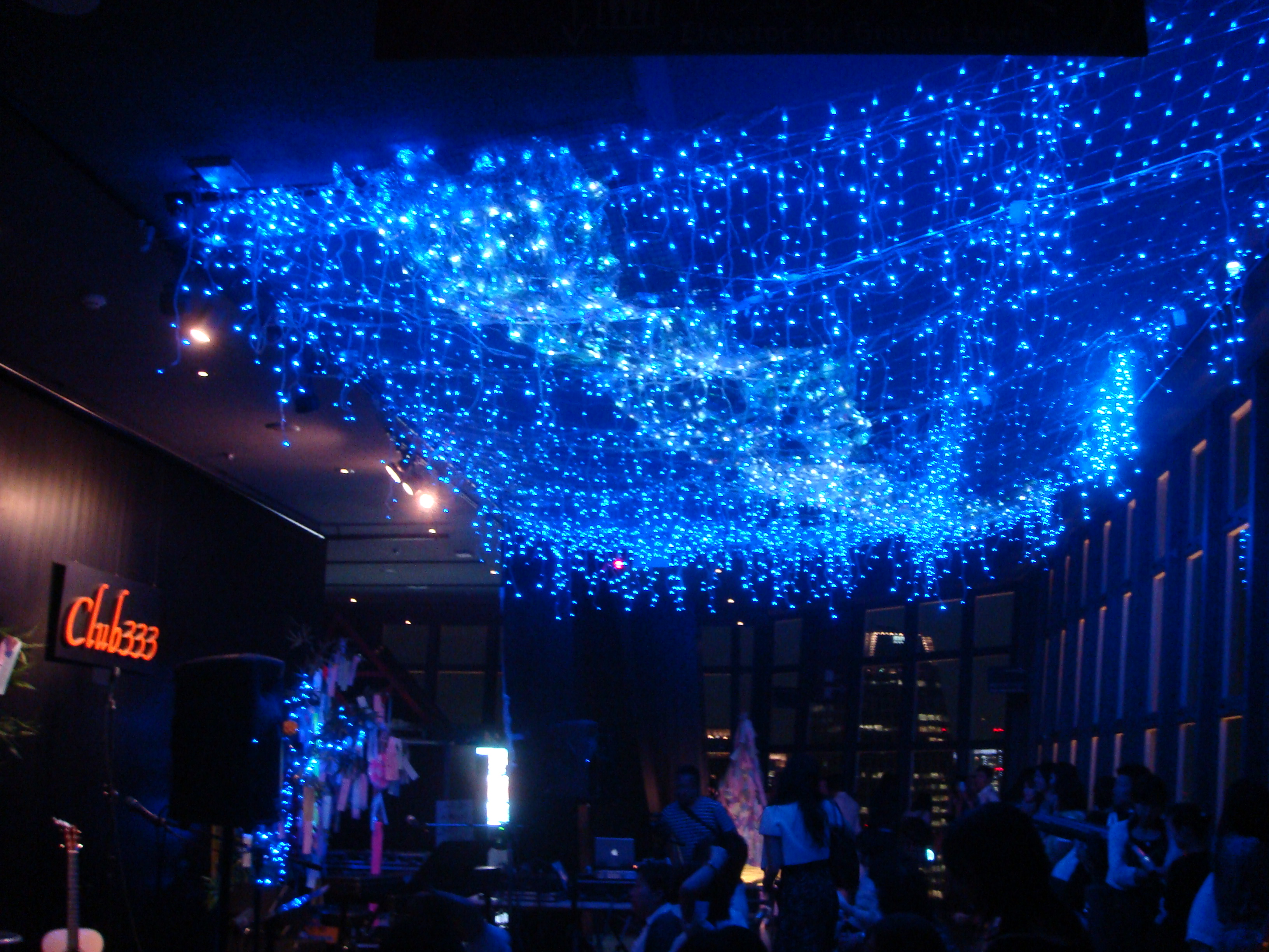 Club 333 Tokyo Tower